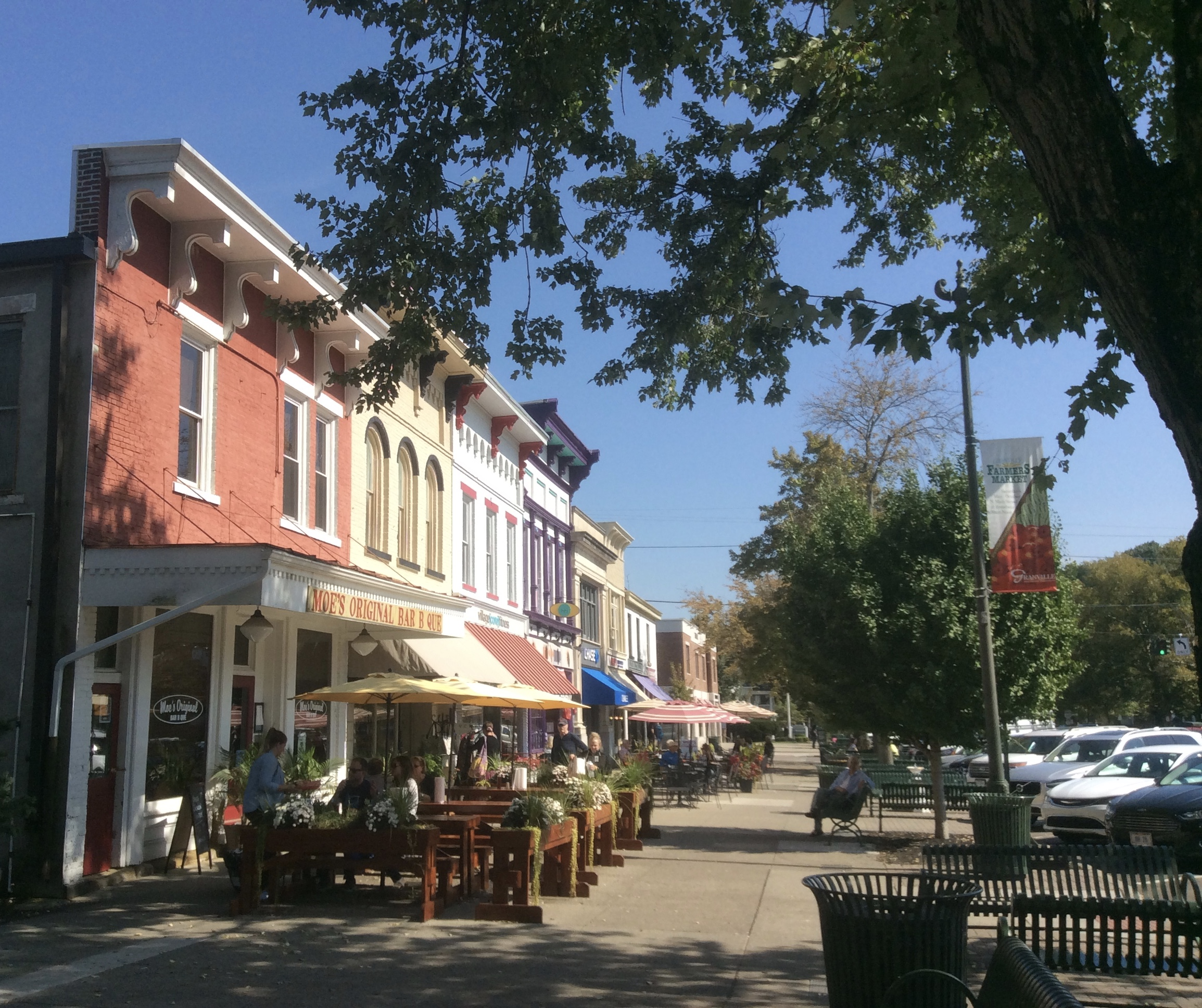 Shops on north side of Broadway, looking east,, Granville, Ohio